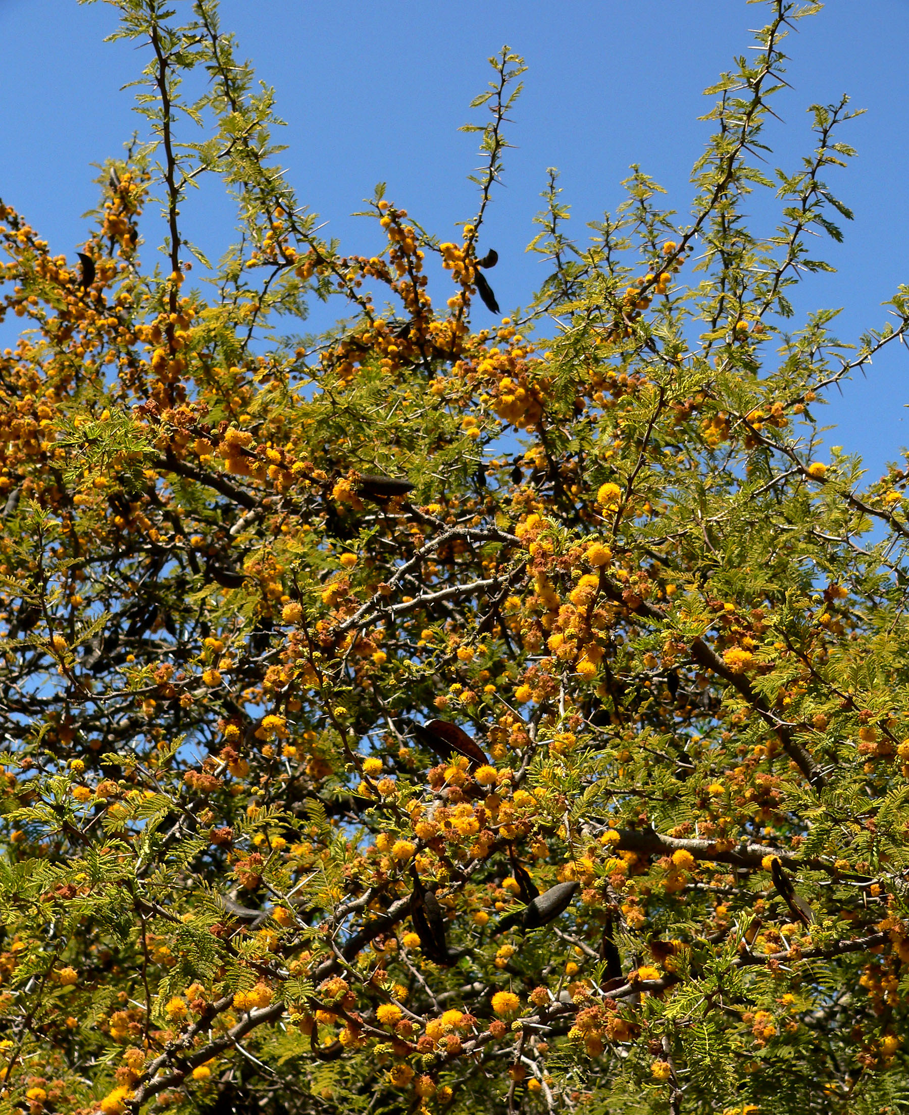 Acacia caven at the University of California Botanical Garden, Berkeley, California